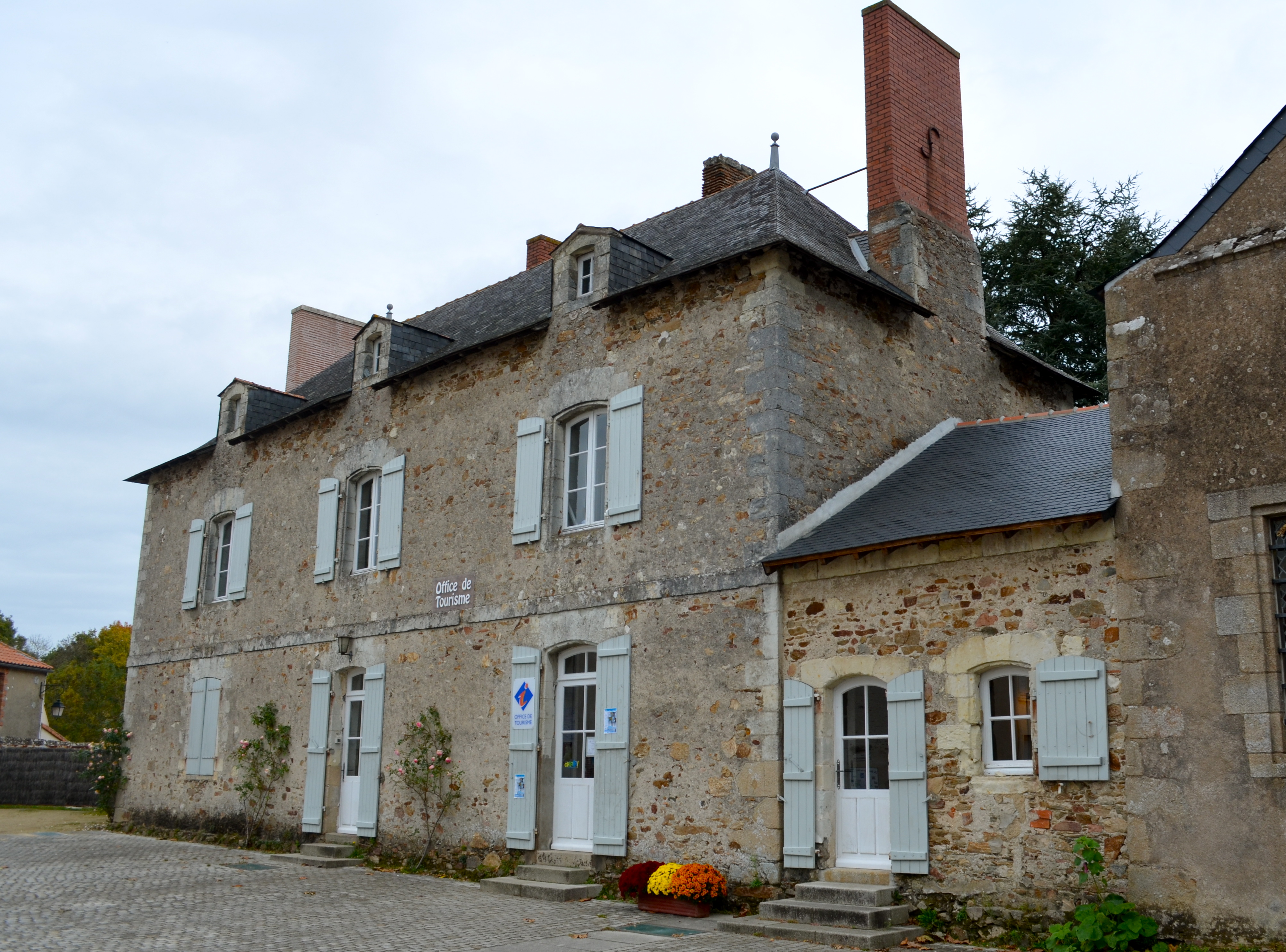 Church in Saint-Philbert abbey in Saint-Philbert-de-Grand-Lieu (Loire-Atlantique, France)